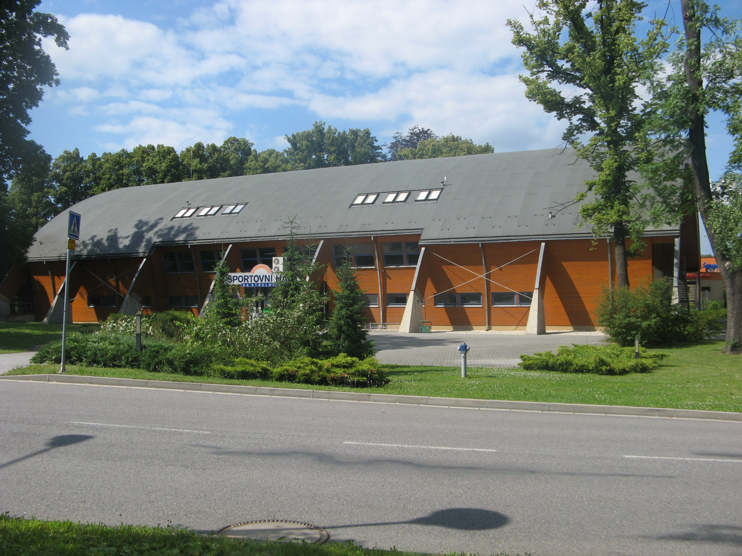 Sports Hall on the corner of the streets Prague and Olbrachtova, Svitavy - Czech republic